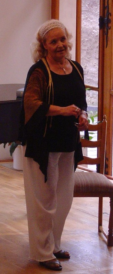 OKH 2005: Gabriela Vránová (cropped version)